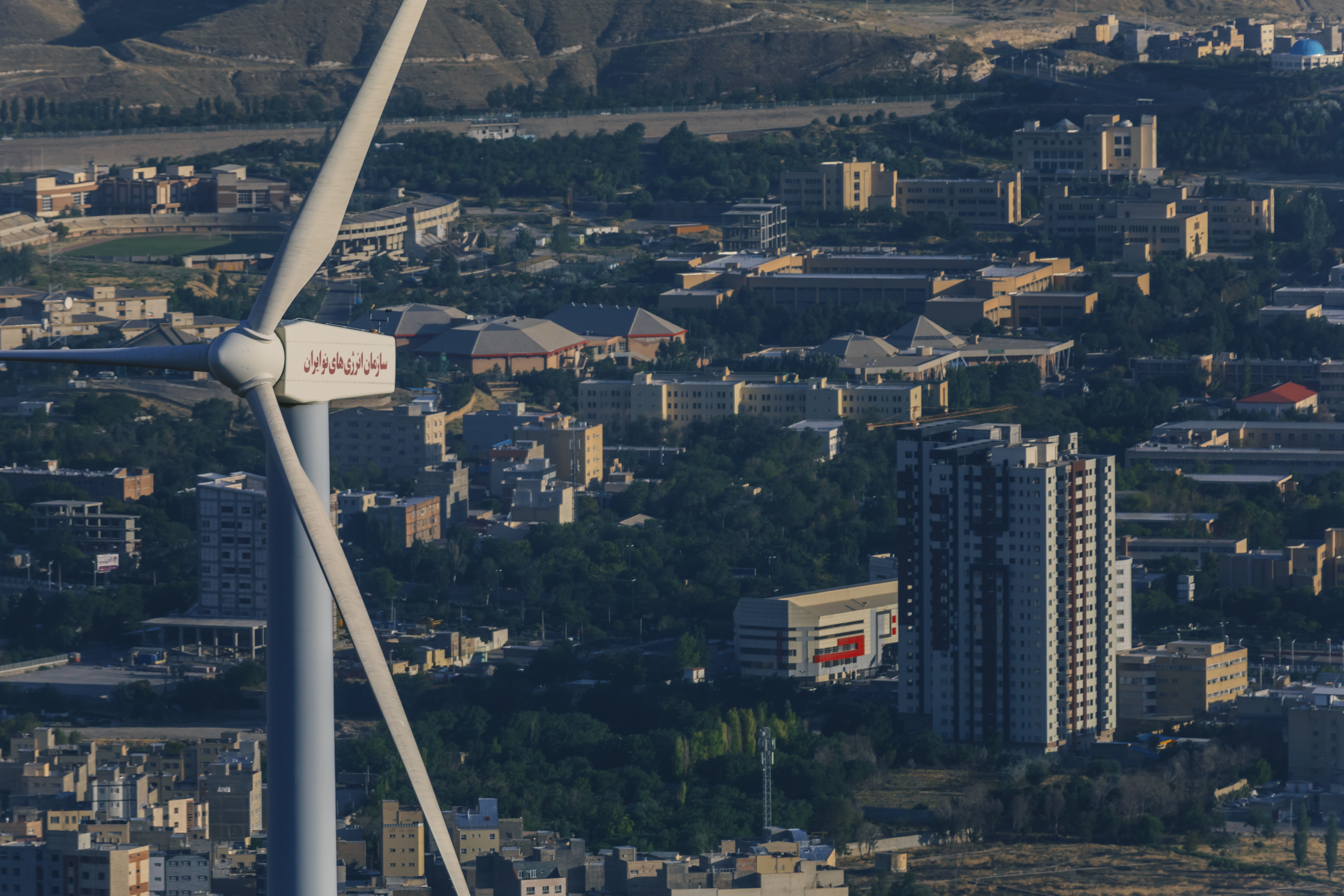 Tabriz is the most populous city in northwestern Iran, one of the historical capitals of Iran and the present capital of East Azerbaijan Province.